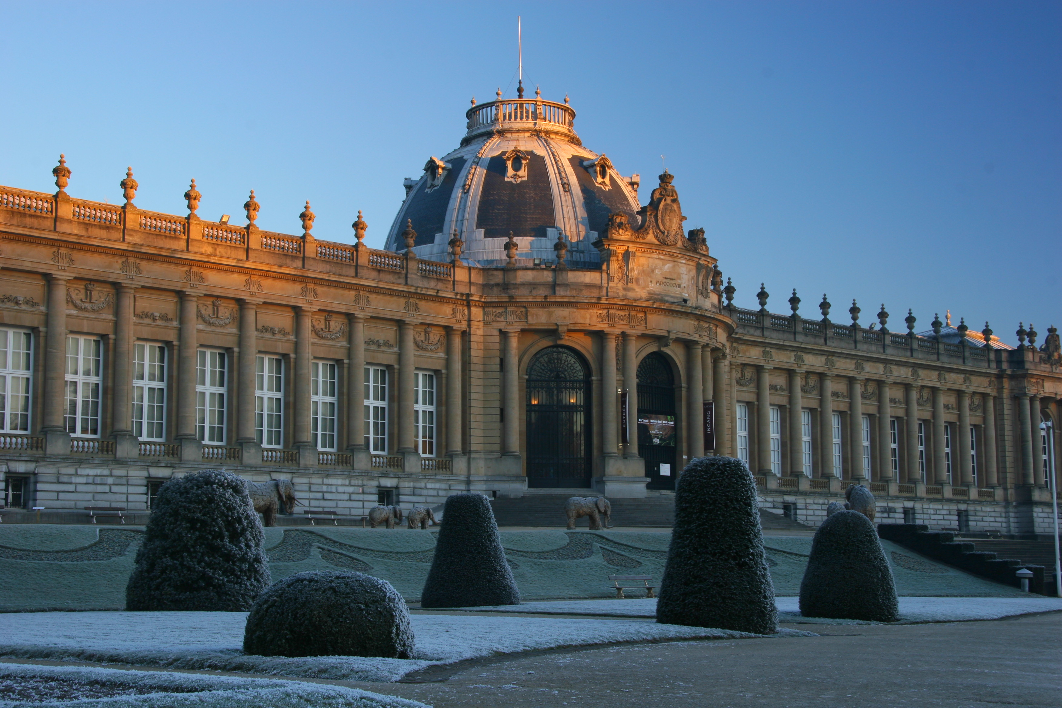 The entrance of the Royal Museum for Central Africa